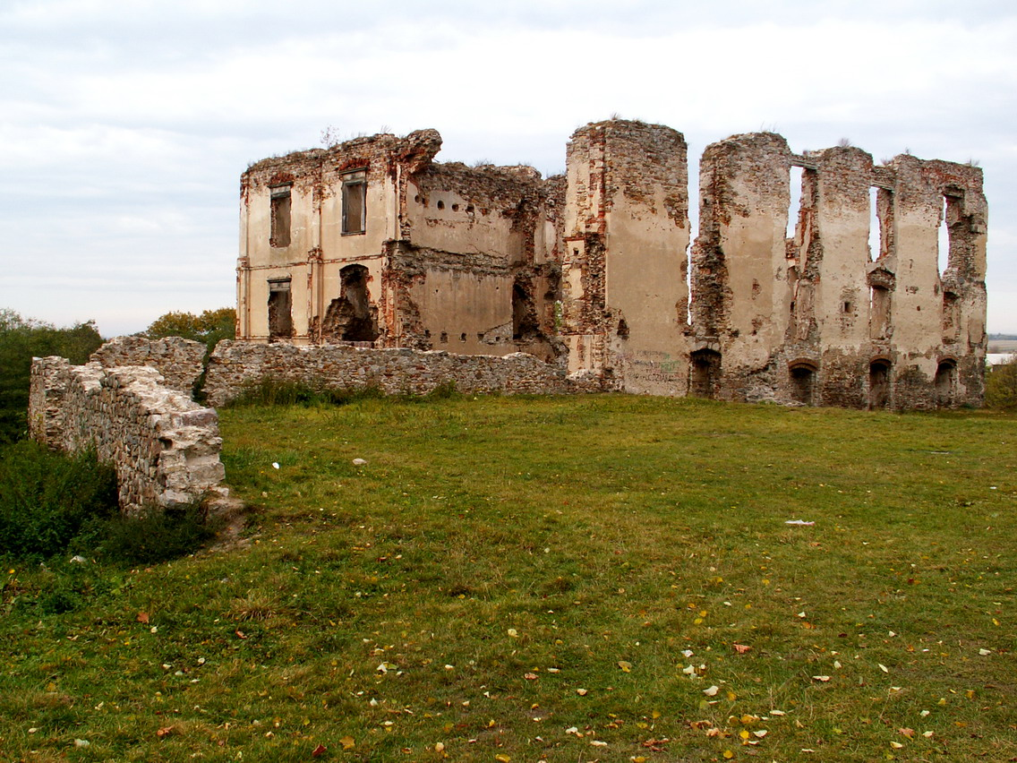 Castle ruins in Bodzentyn (Poland)